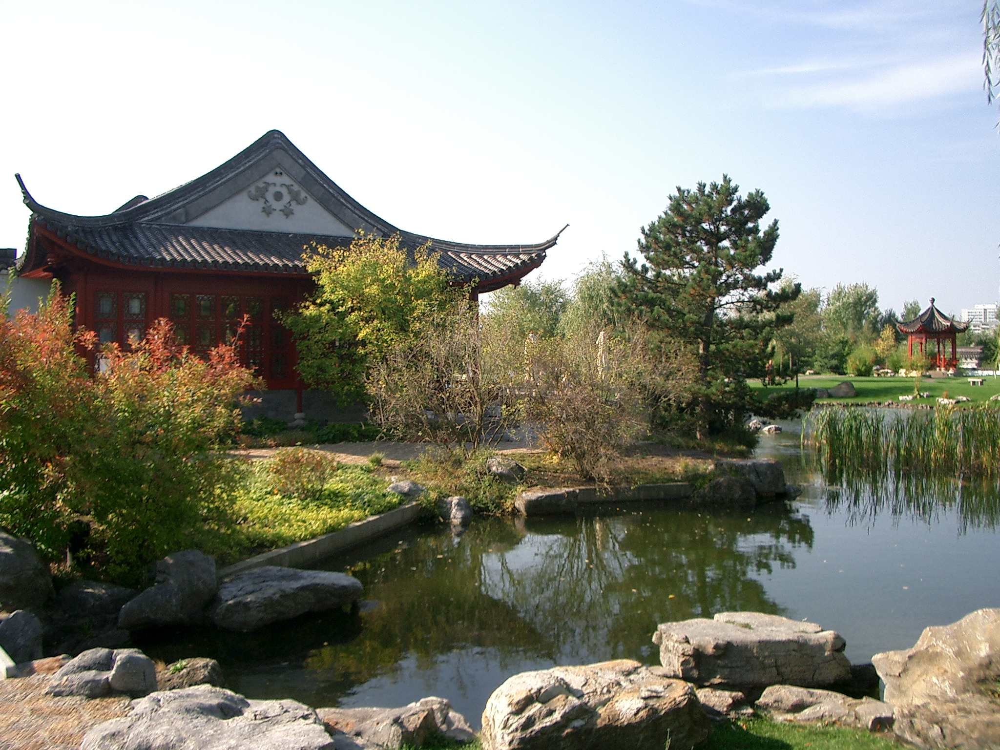 chinese garden in Erholungspark Marzahn